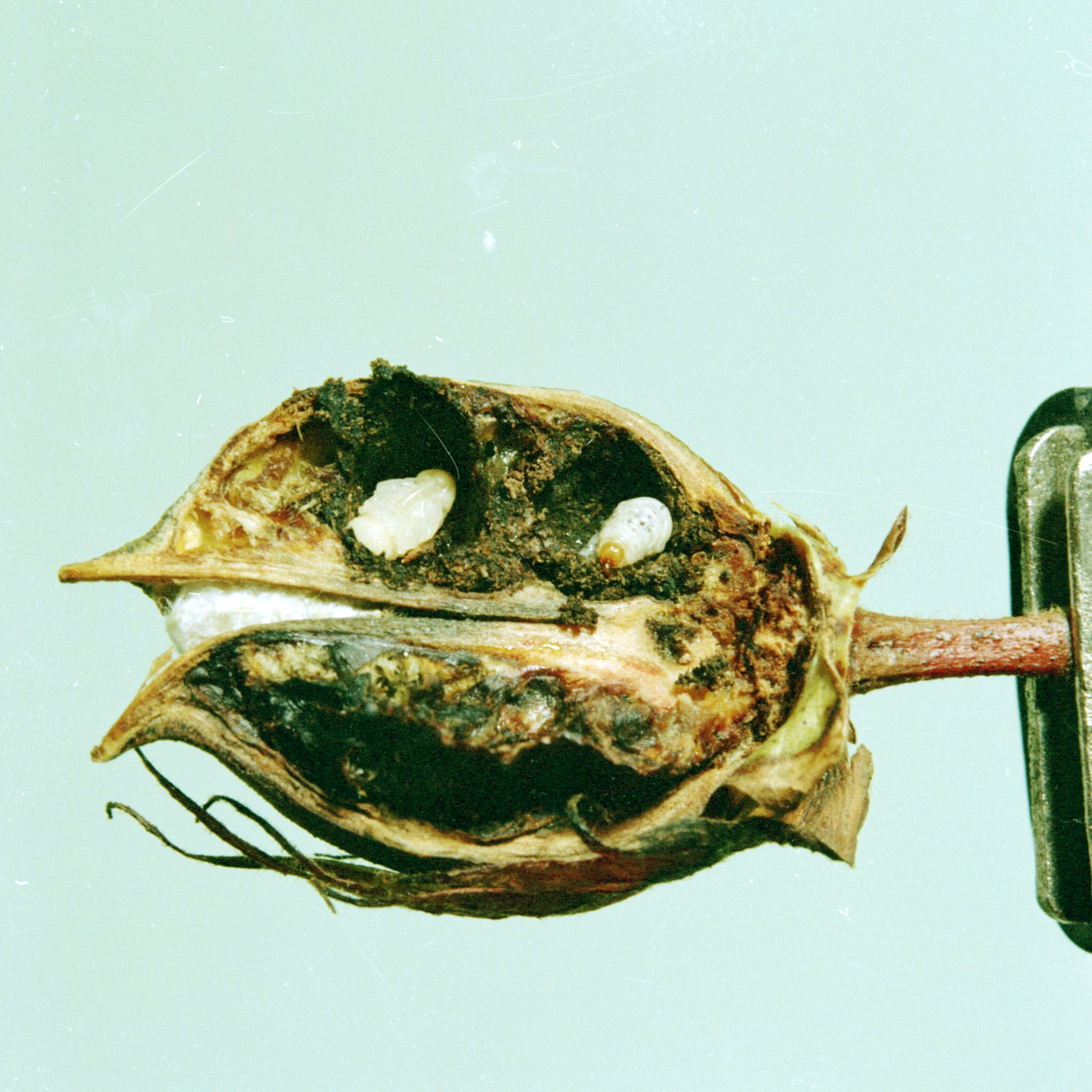 Anthonomus grandis Boheman, 1843 Host: cotton Gossypium hirsutum L. Common Name: boll weevil Photographer: Clemson University - USDA Cooperative Extension Slide Series, , United States Contact: Pat Zungoli, Clemson University Descriptor: Damage Description: and larvae Image taken in: United States